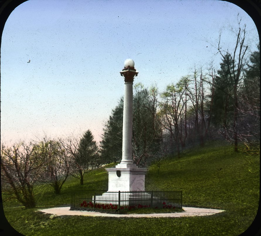 This column, located in Prospect Park (Brooklyn, New York) commemorates the 400 Maryland soldiers who fought at Lookout Hill during the Battle of Long Island on August 27, 1776. Designed by Stanford White, the monument is inscribed with a quote attributed to George Washington: "My God, What Brave Fellows I Must This Day Lose!"